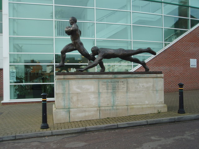 Bronze Statue, Northampton Saints Rugby Club, Northampton.